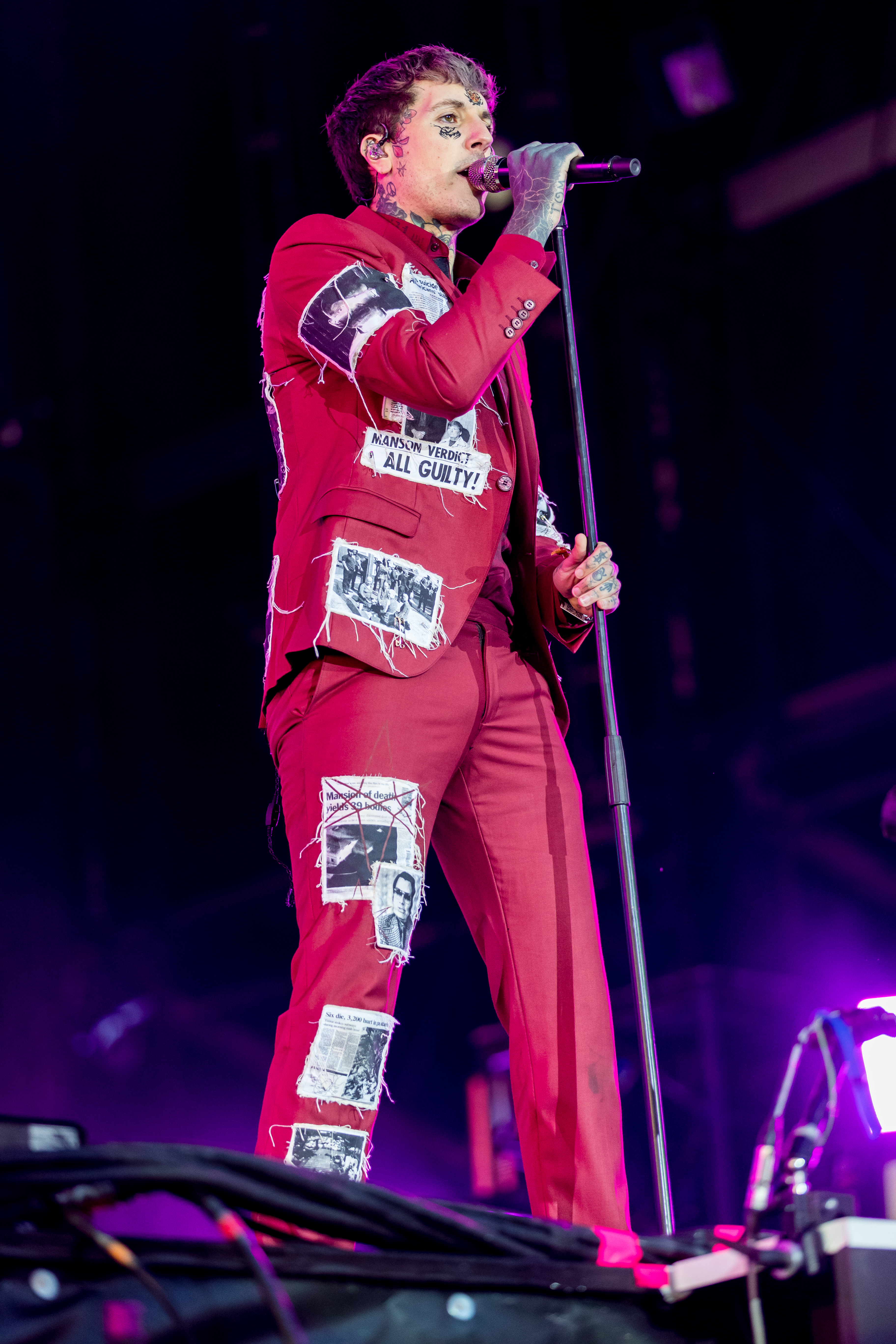 Bring me the Horizon during Rock am Ring ( at Nürburgring, Rheinland-Pfalz, Germany on 2019-06-08, Photo: Sven Mandel Promotion by Live Nation (